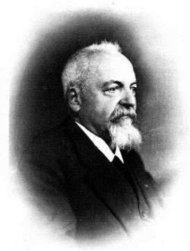 Léon Frédéricq (1851-1935) .